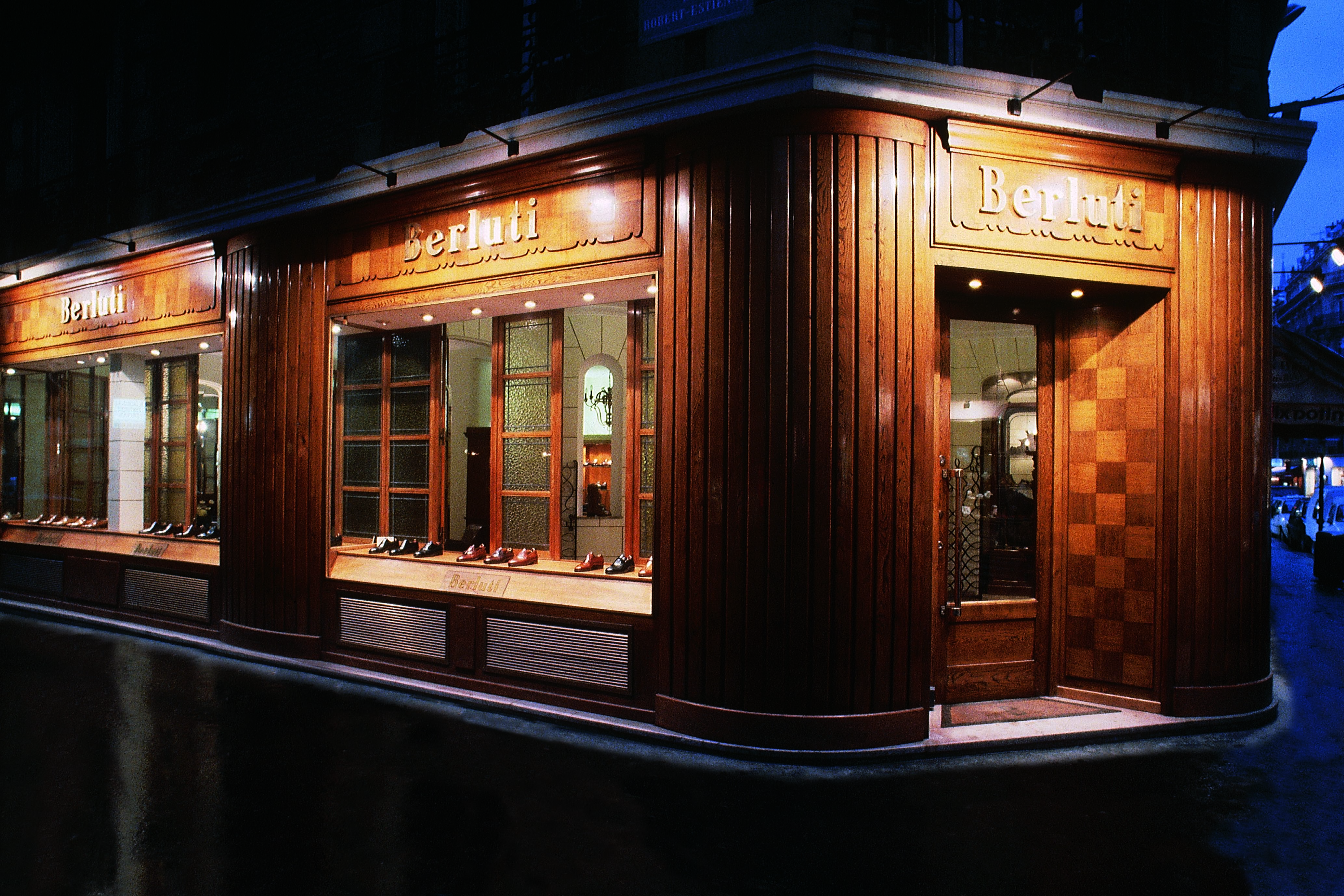 Berluti store in Paris. Credits Mirco Braccini.